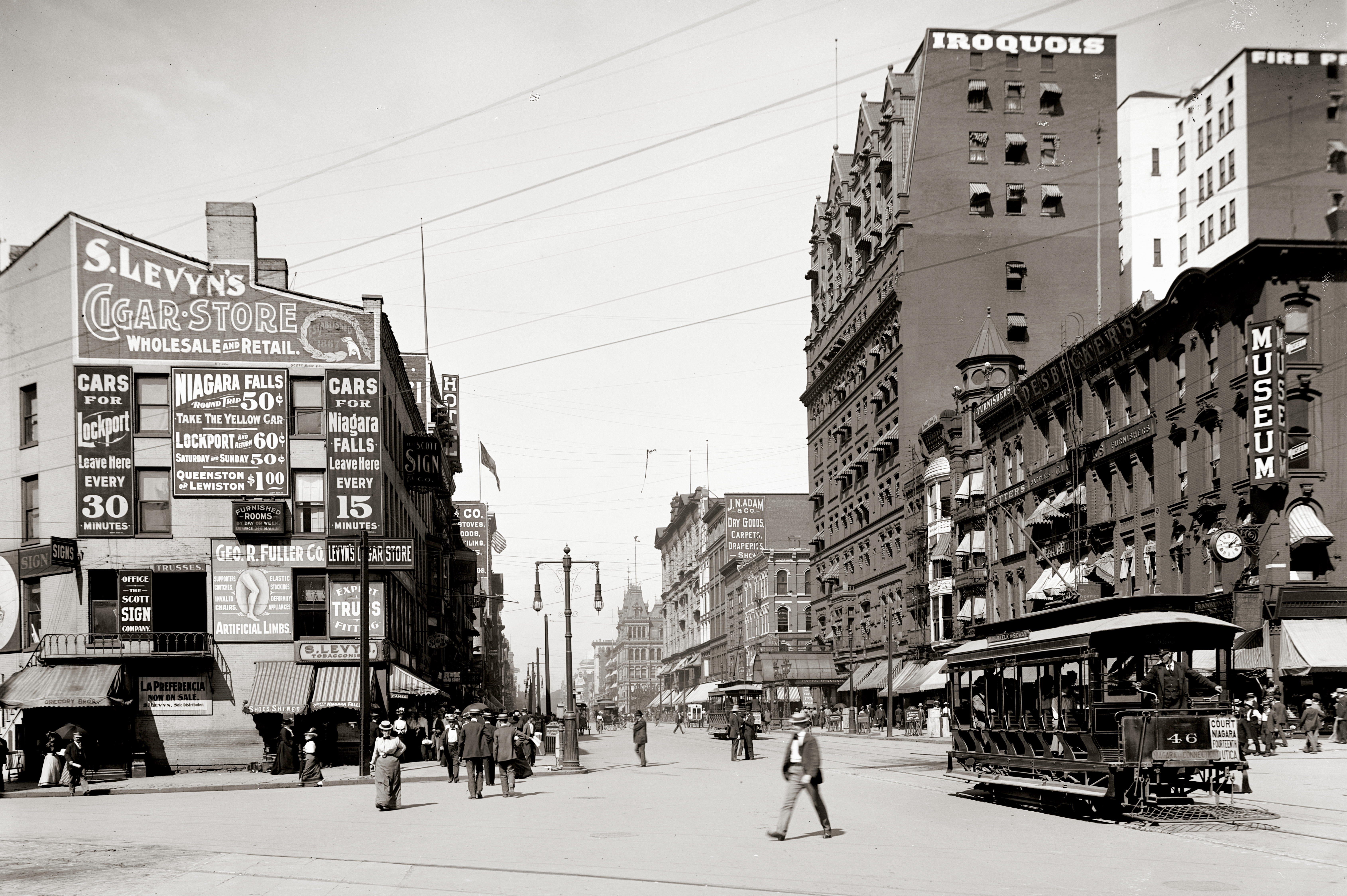 Main Street (looking north) in Buffalo, New York. To the right is the Iroquois Hotel (now demolished).